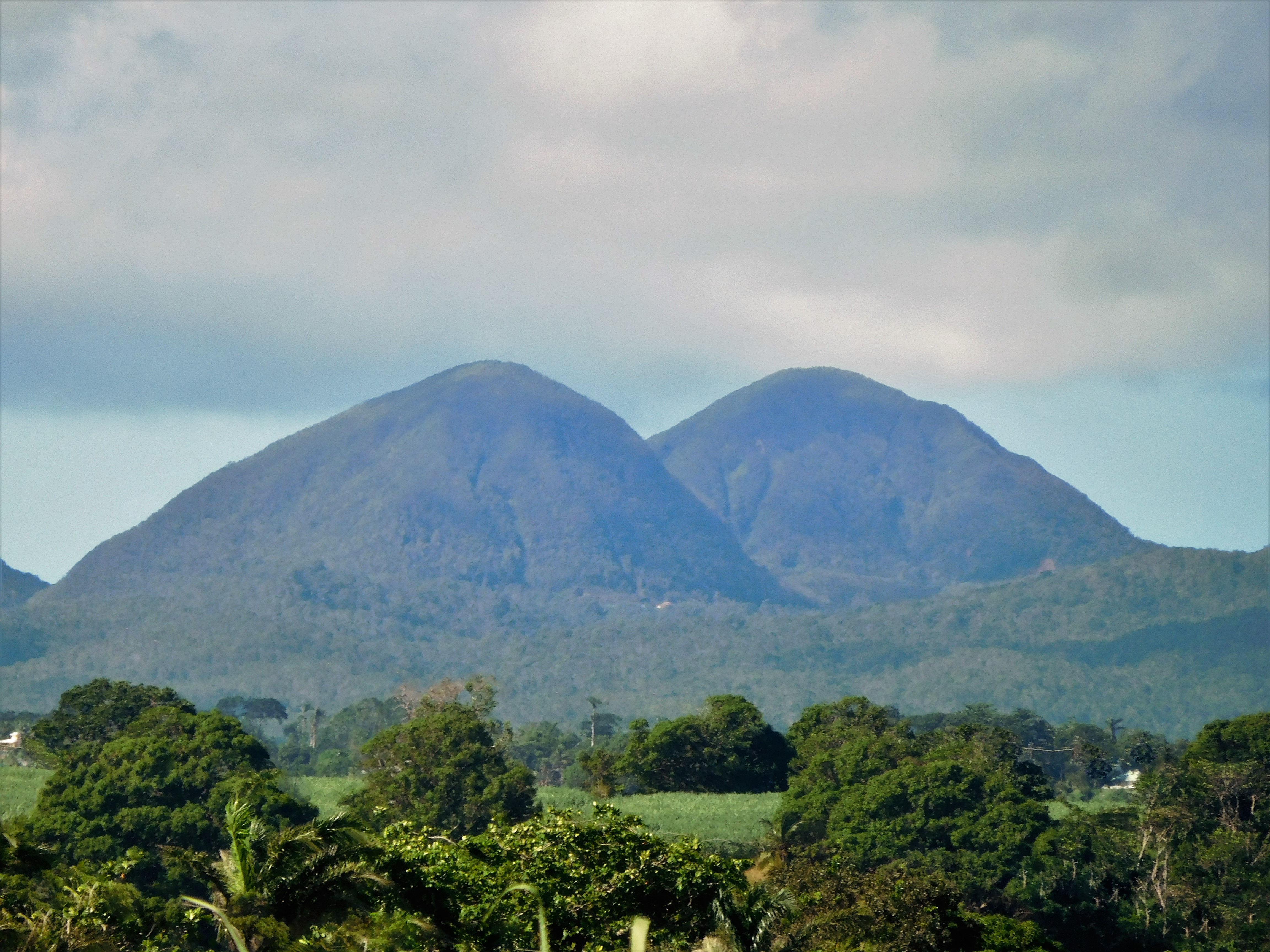 Les Mamelles